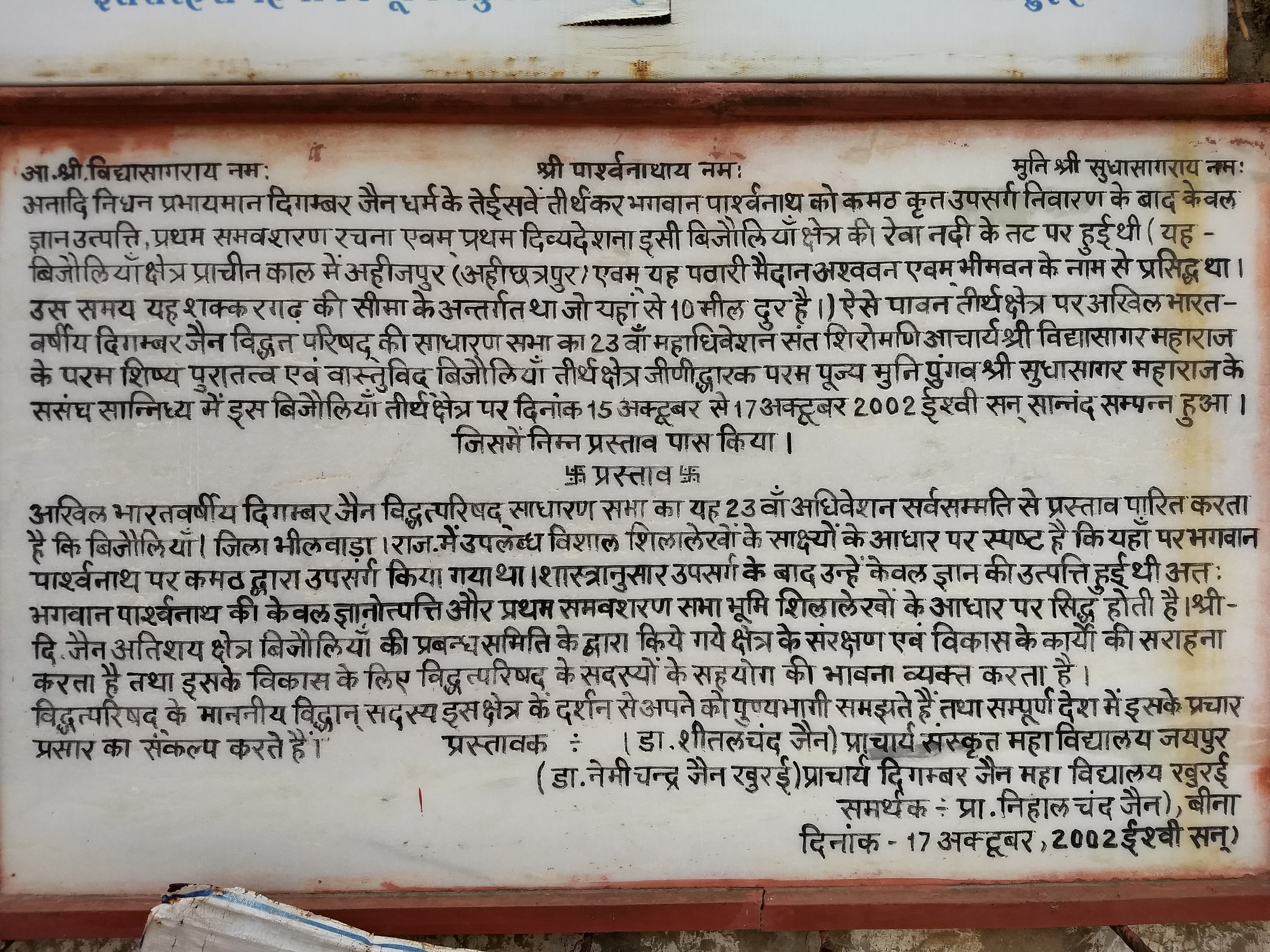 Bijolia Parasnath